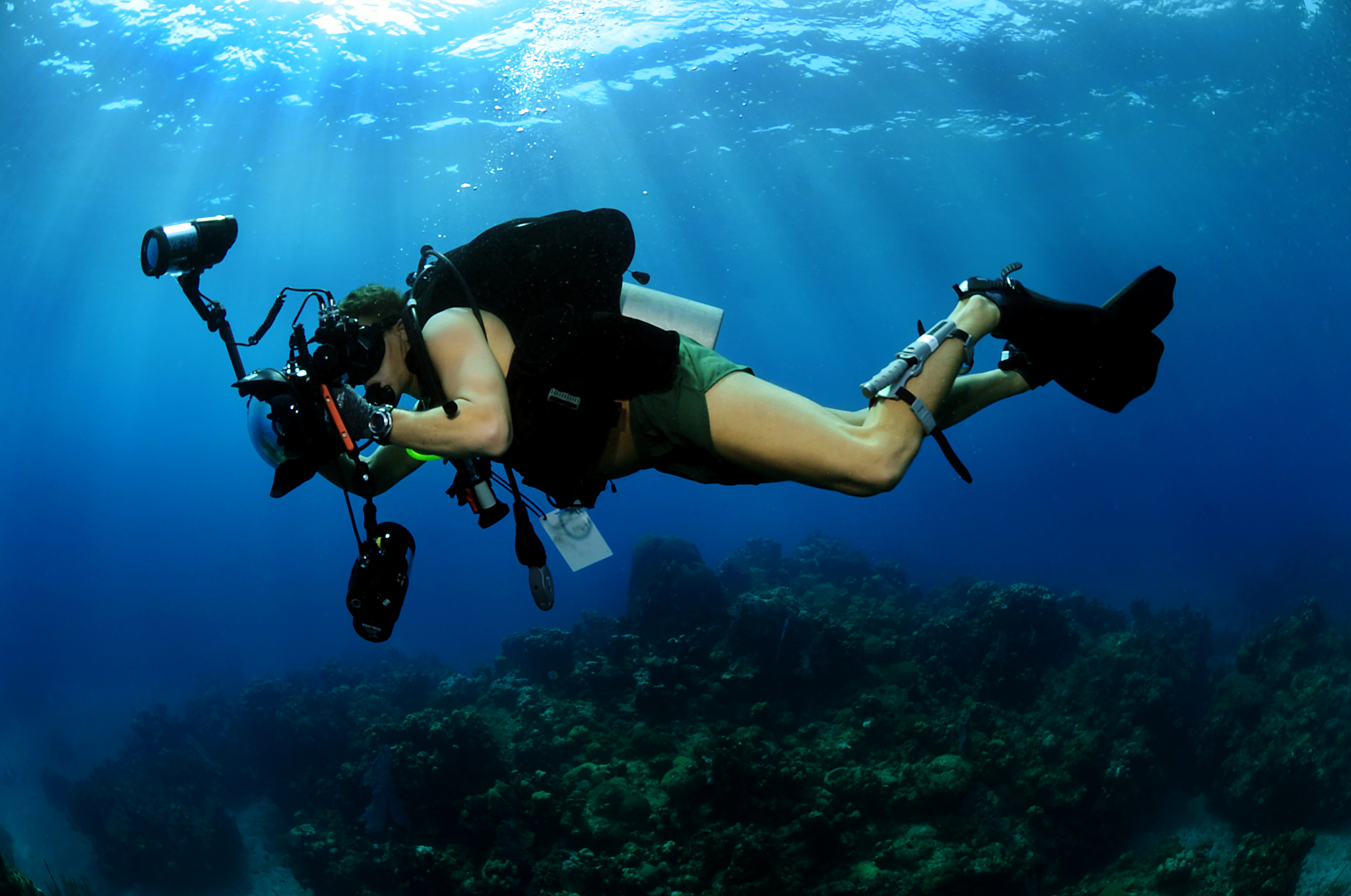 GUANTANAMO BAY, Cuba (Feb. 9, 2012) Mass Communication Specialist 1st Class Shane Tuck, assigned to the Expeditionary Combat Camera Underwater Photo Team, conducts underwater photography training off the coast of Guantanamo Bay, Cuba. The team conducts semi-annual training to hone its divers' specialized skill set and ensure valuable support of Department of Defense activities worldwide. (U.S. Navy photo by Mass Communication Specialist 1st Class Jayme Pastoric/Released)